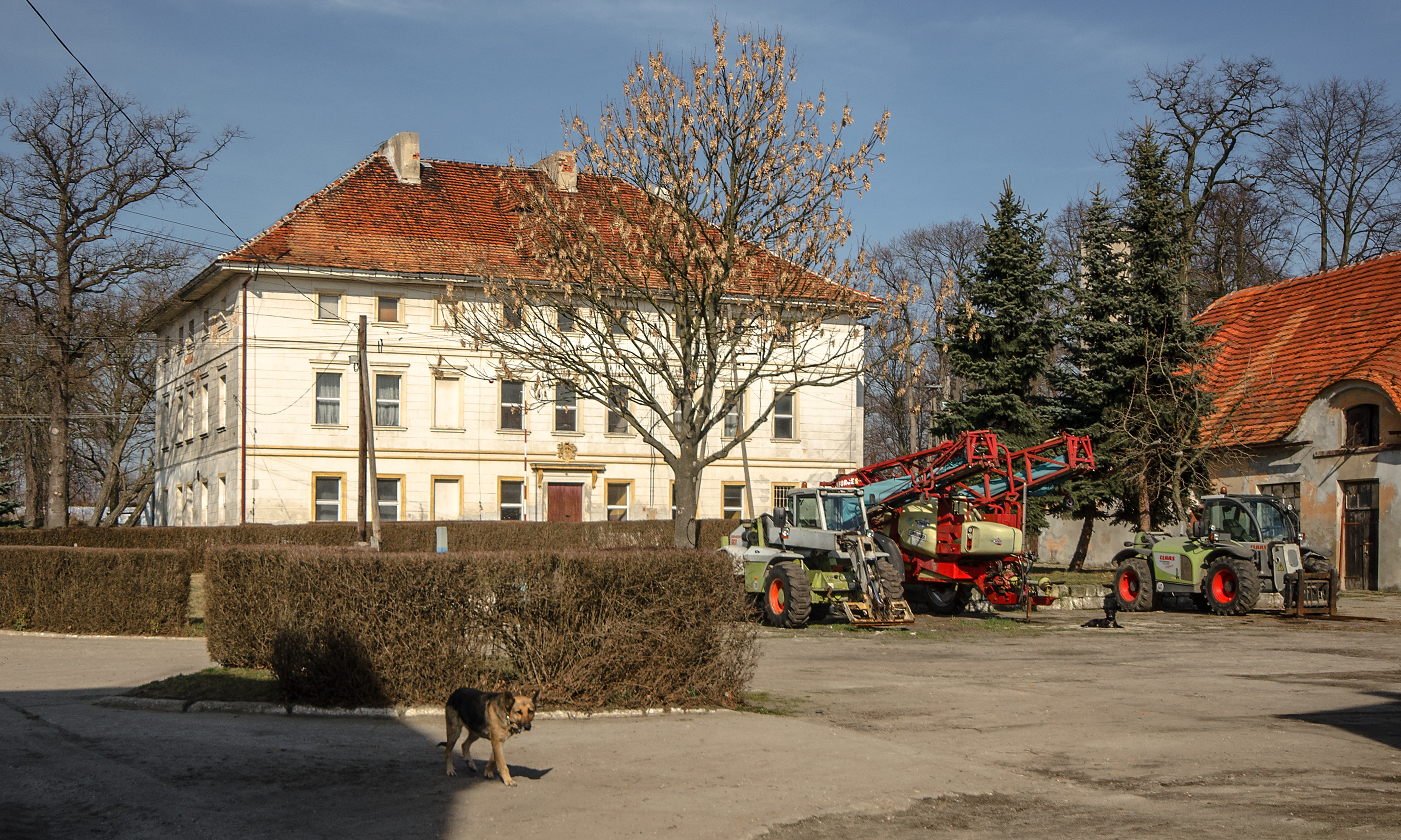 The manor house in Osetnica, formerly German Steinsdorf, built 1860-1870